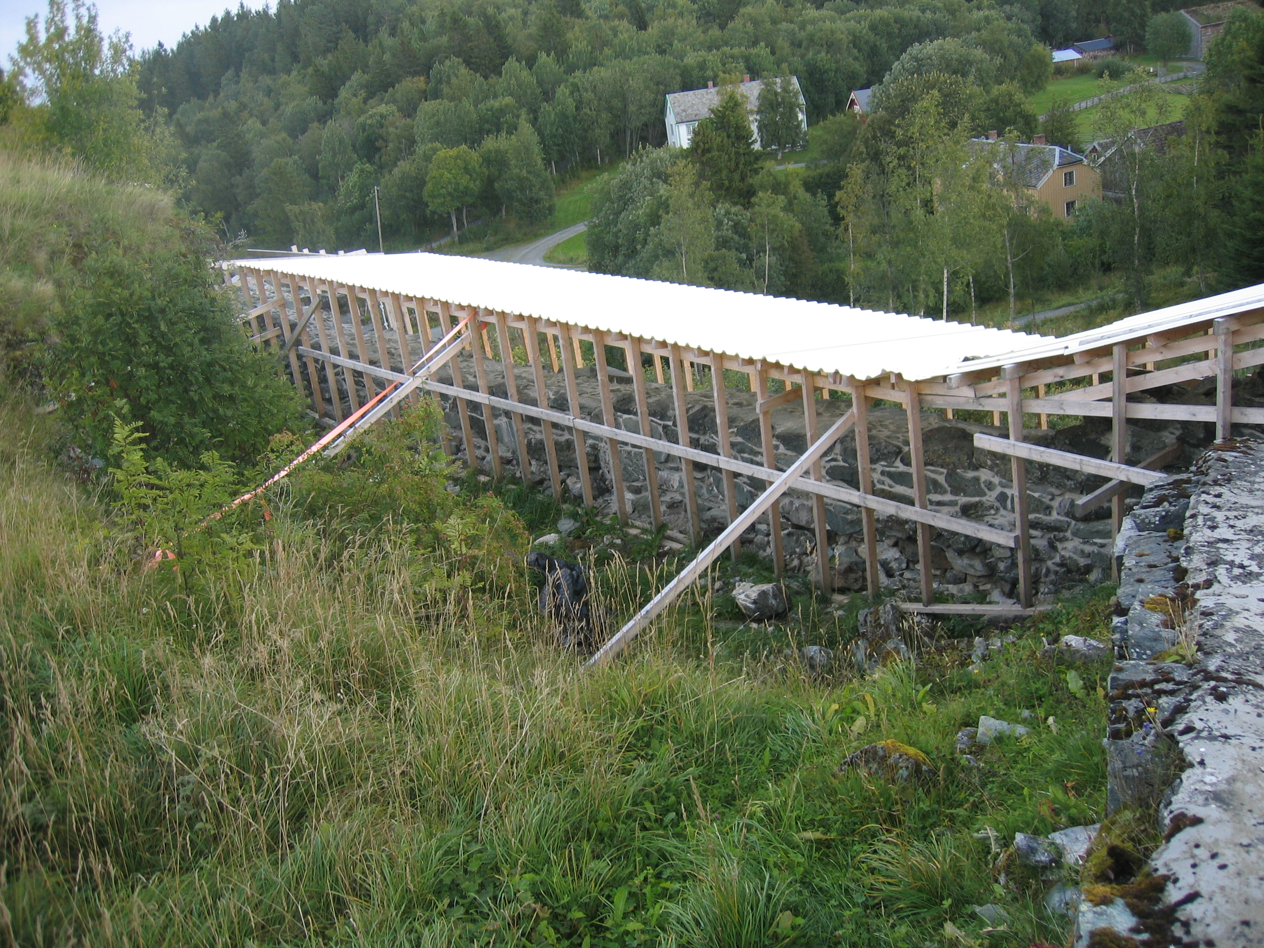 A stone wall under reconstruction at Sverresborg in Trondheim, Sør-Trøndelag, Norway.